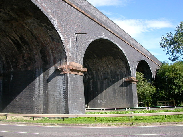 Rugby-Eleven Arches Viaduct The south side of the viaduct which used to carry the Rugby-Leicester line over the River Avon and Leicester Road.